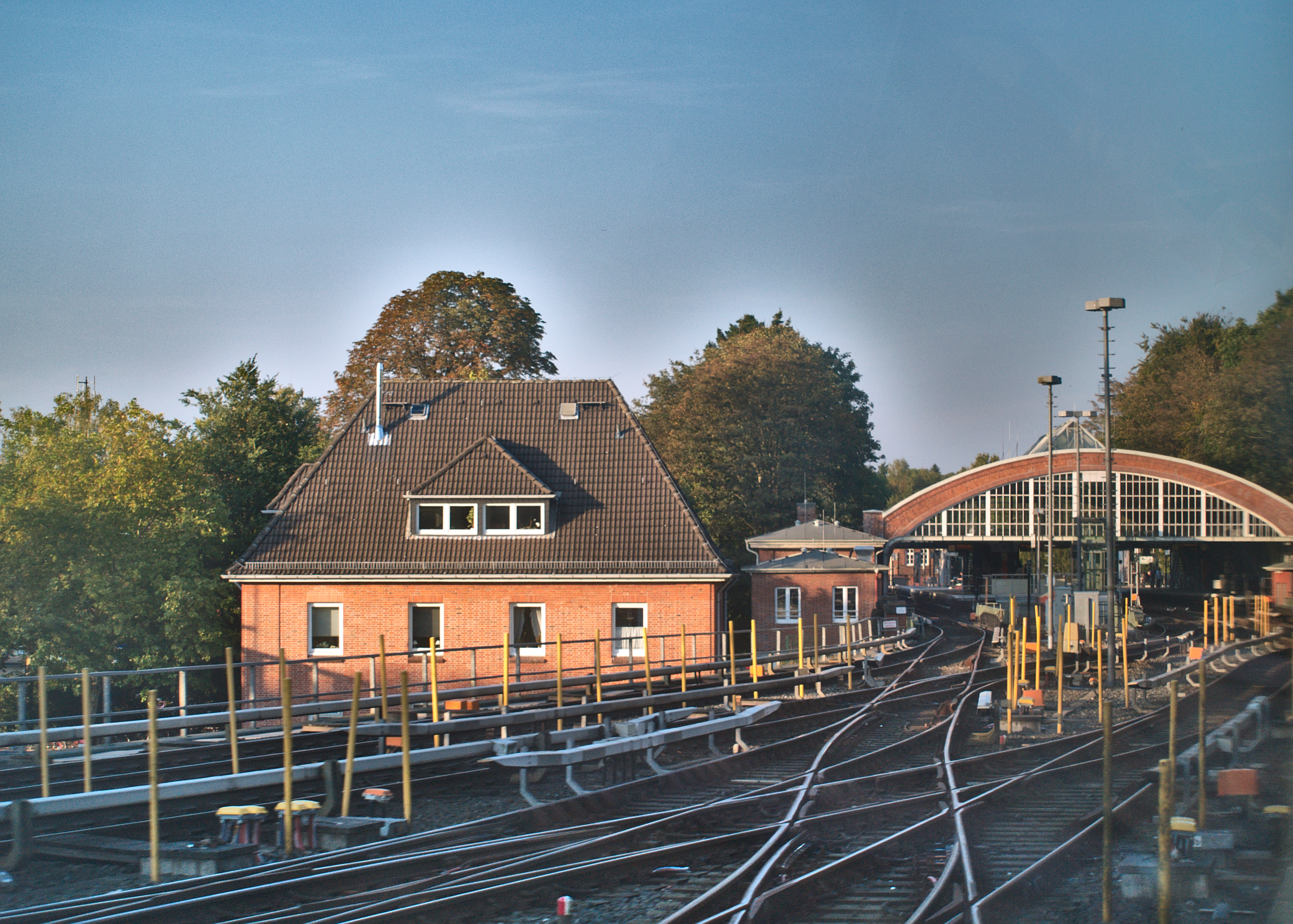 Volksdorf station of the Hamburg subway as seen from a train on route U1 approaching it coming from the city center.